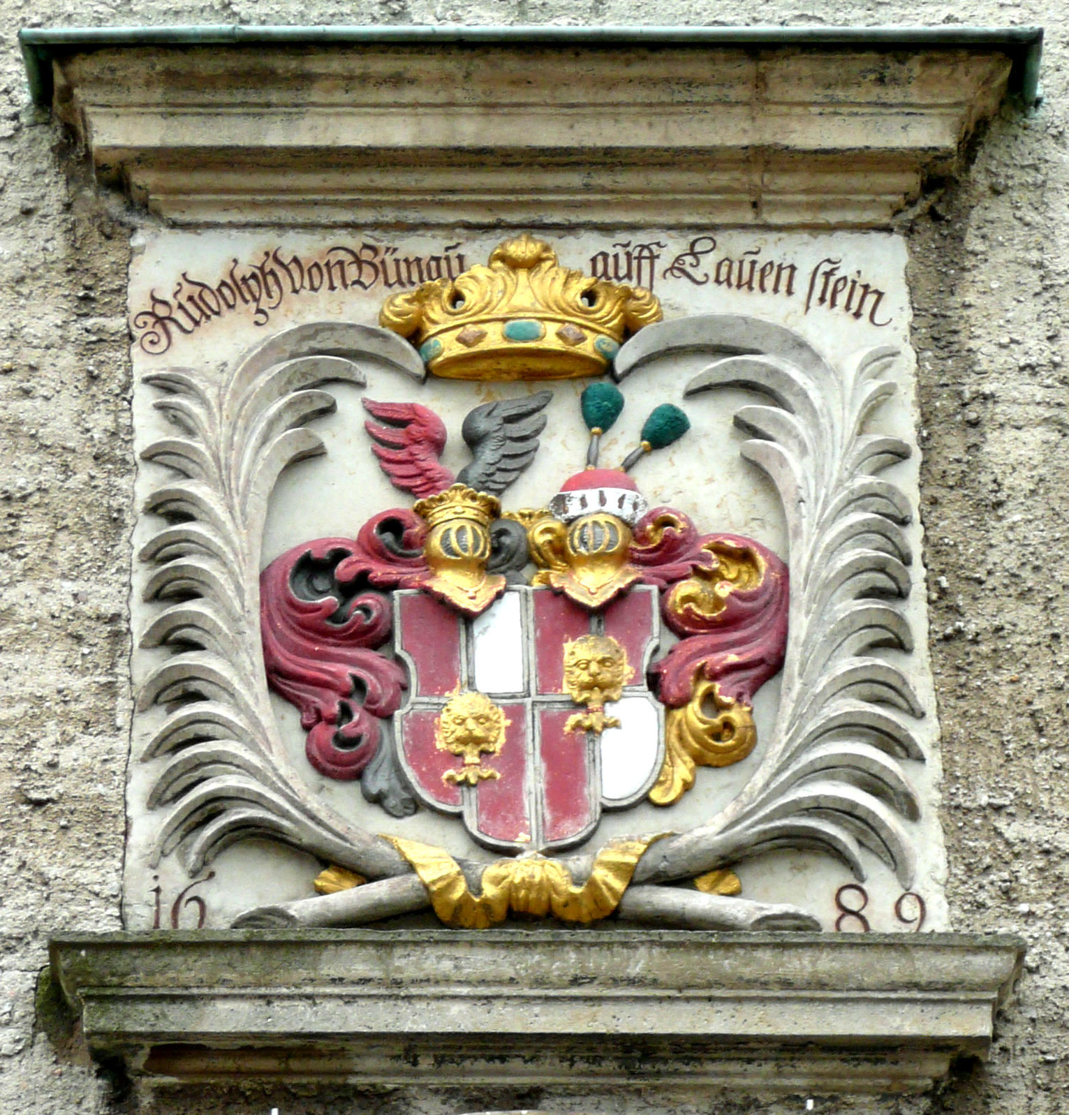 This image shows the family arms of the family of the House of Bünau on top of the portal of the church in Geising. The Bünau family dominated parts of Saxony and Bohemia from the 15th until the 18th century.